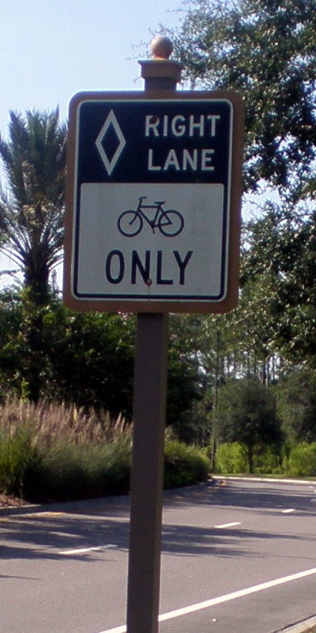 Sign showing dedicated bike lane on Bartram Springs Parkway